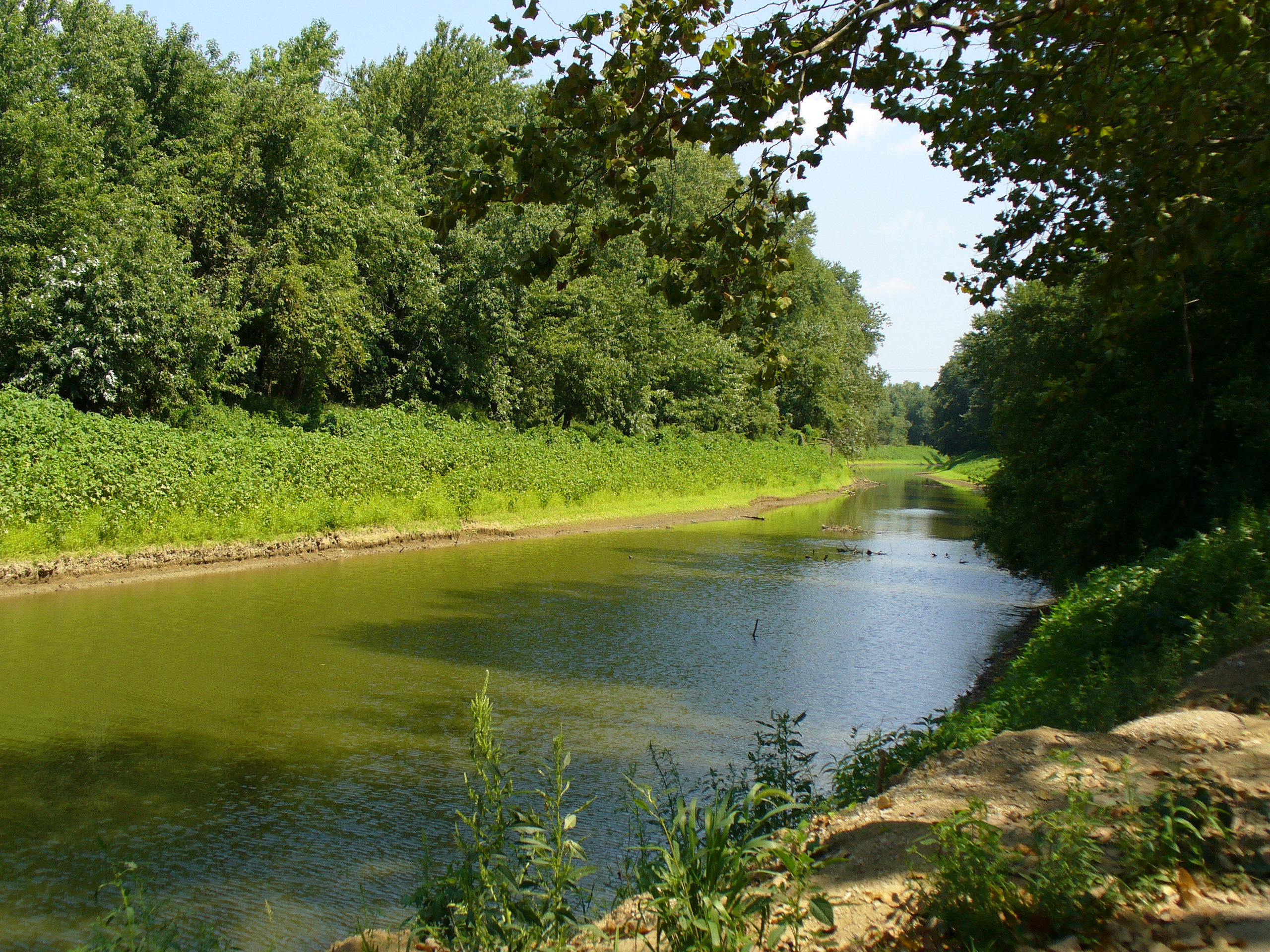 Seen from Indiana, just across the river from Mt. Carmel, this inlet and island are a wildlife preserve established just a few yards from the campus of the Gibson Generating Station.